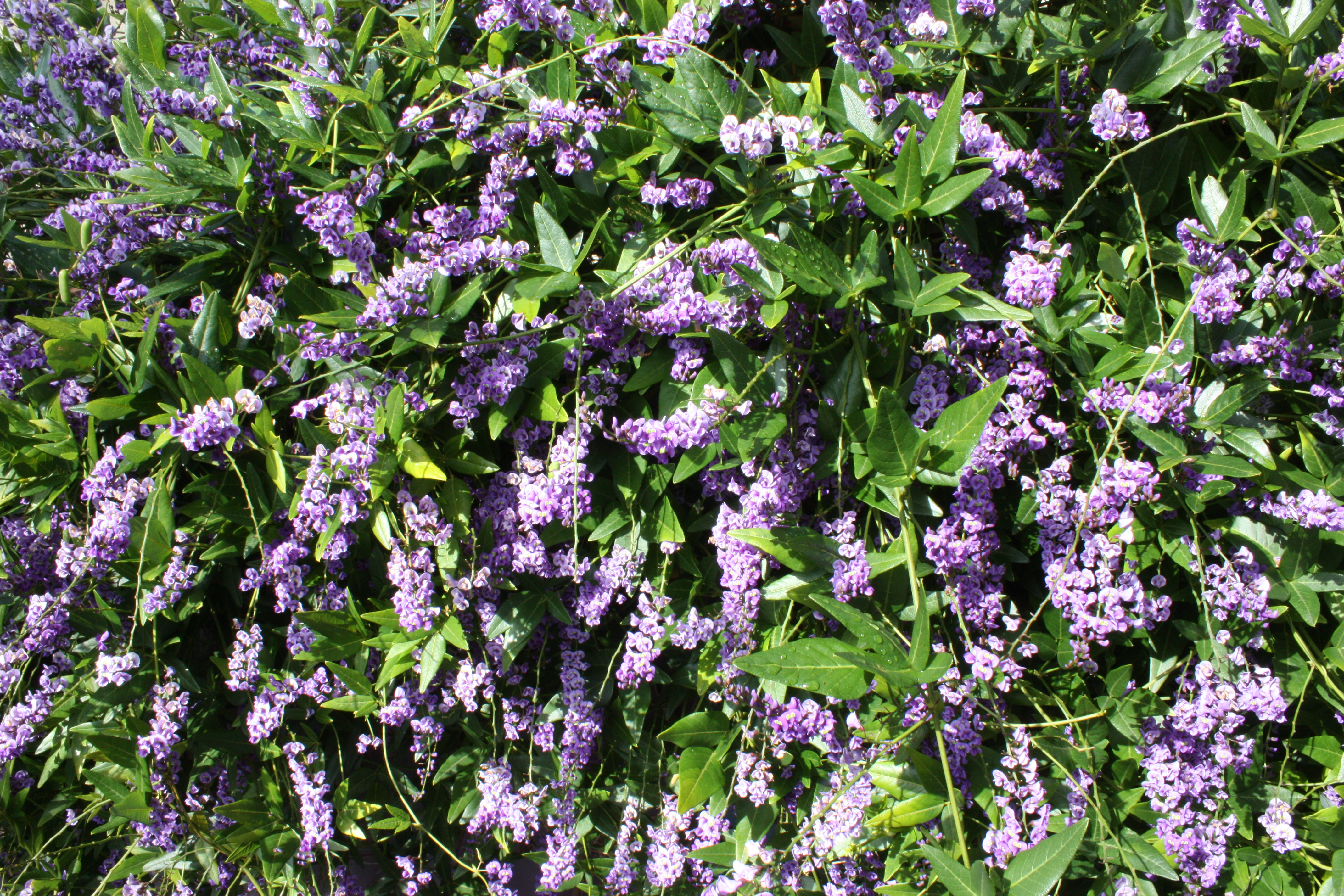 Hardenbergia comptoniana covering a trellis, Perth, Western Australia